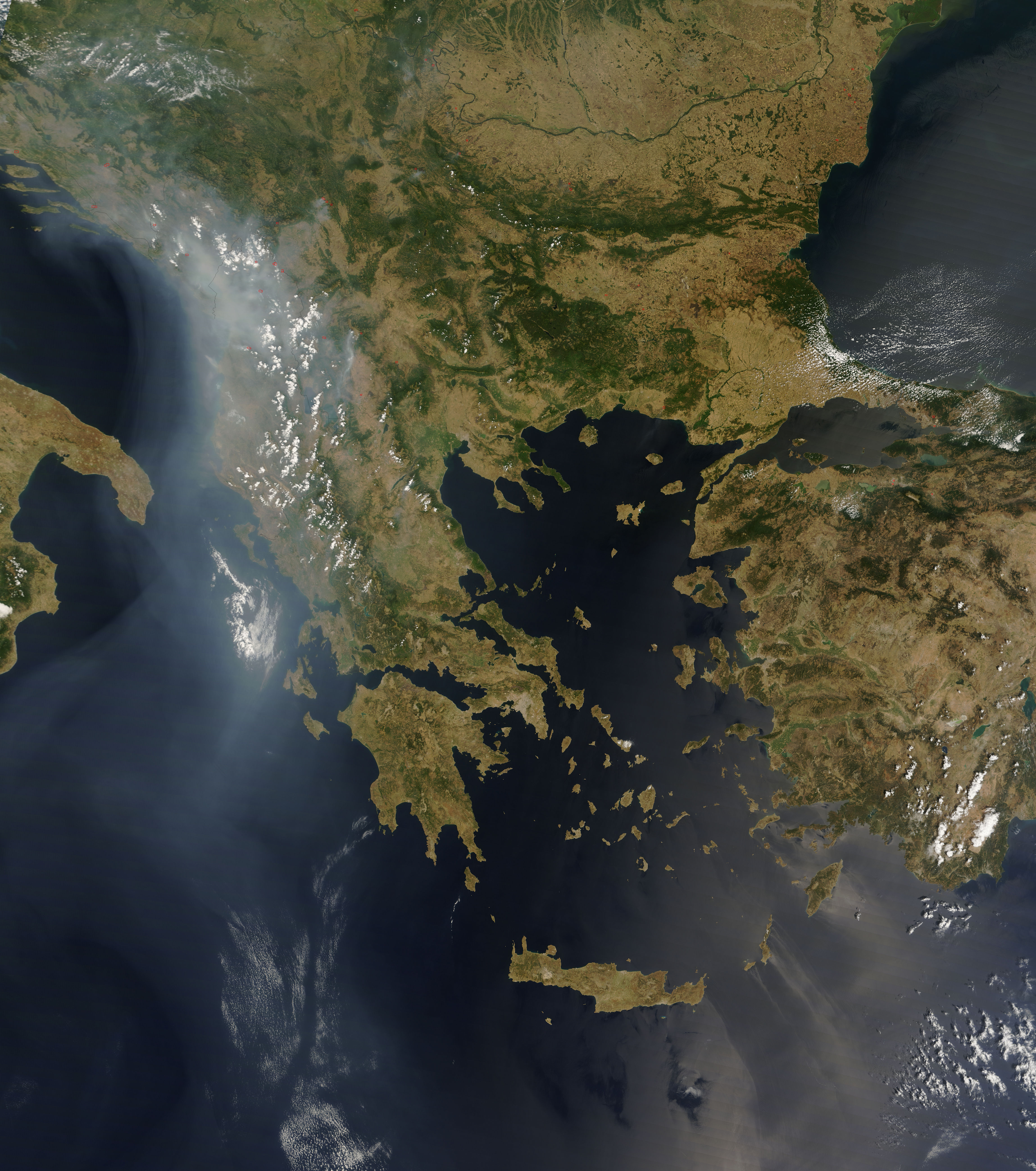 Wildfires across the Balkans in late July 2007, seen from space